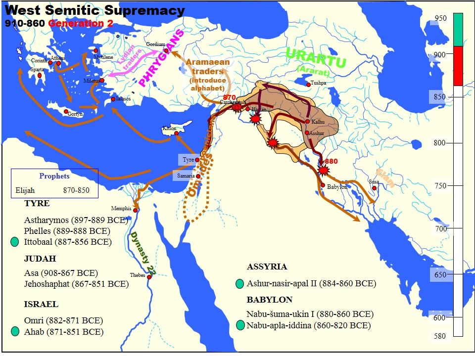 Assyrian expansion during the reign of Ashurnasirpal II